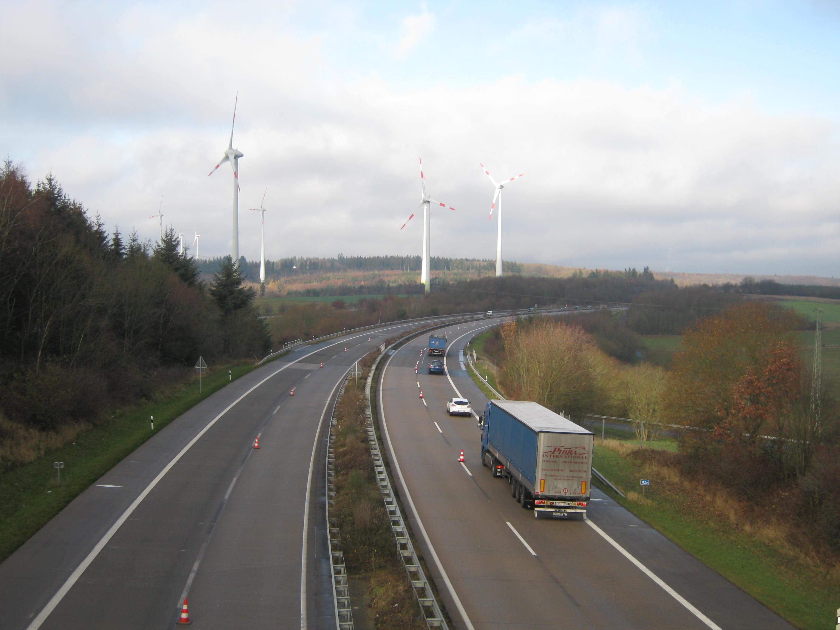 A1 near Lorscheid, Bescheid and Beuren in the Hunsrück Area, germany.